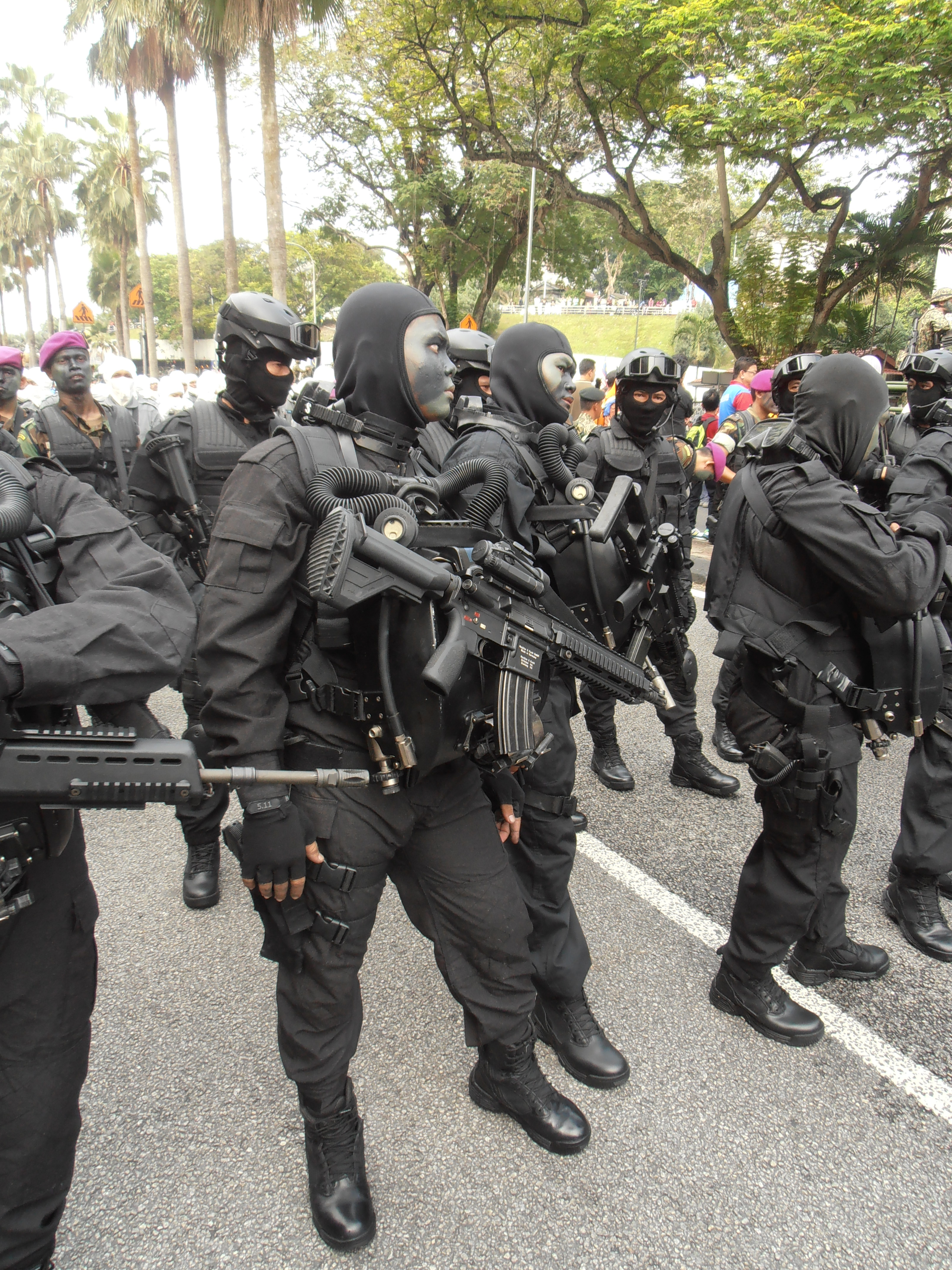 The navy PASKAL frogman operator with HK416-D10RS equipped with Aimpoint M68 Close Combat Optic red dot sight on standby during 57th National Day Parade of Malaysia at Merdeka Square, Kuala Lumpur.